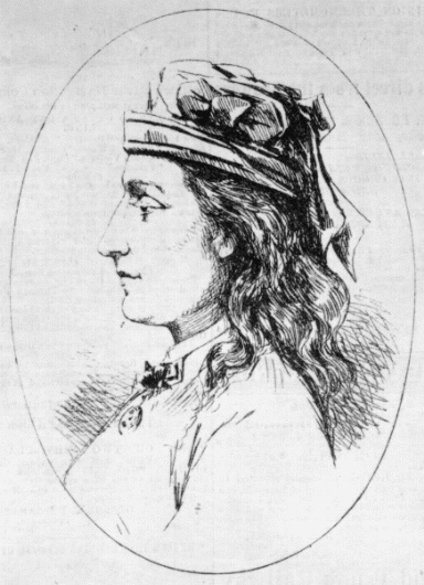 Lizzie Lloyd King, also known as Kate Stoddard and the Goodrich Murderess.